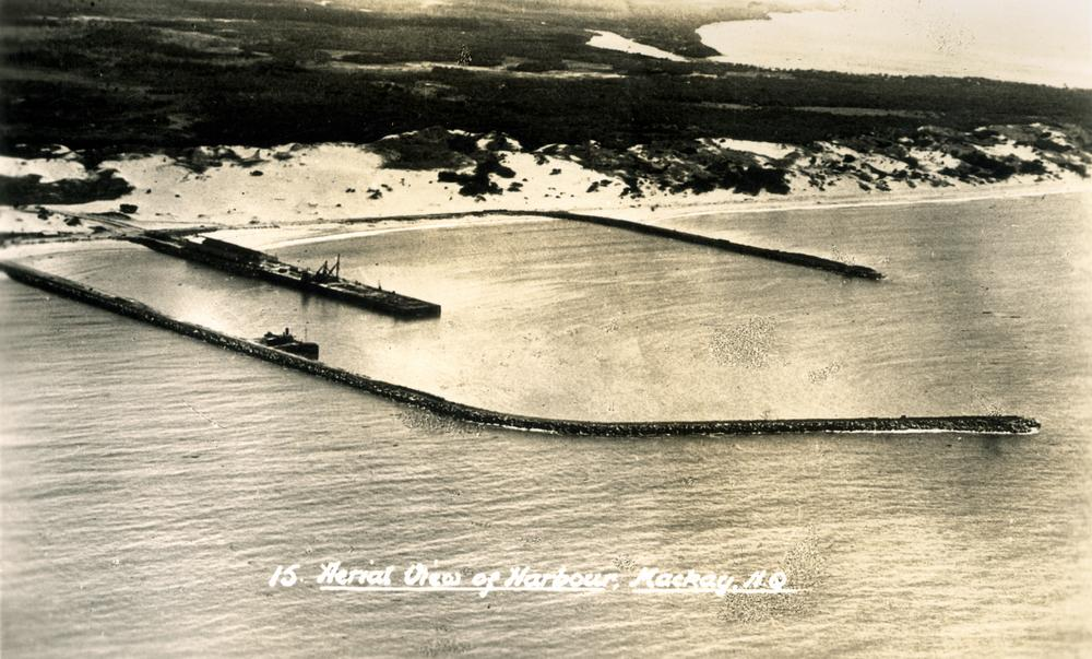 Aerial view of Mackay Harbour, ca. 1939. Photographs shows the man-made harbour at Mackay. This photograph is an original Murray View postcard, no. 15.